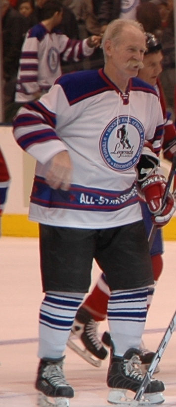 Lanny McDonald played with the All-Star Legends 2008 in Toronto